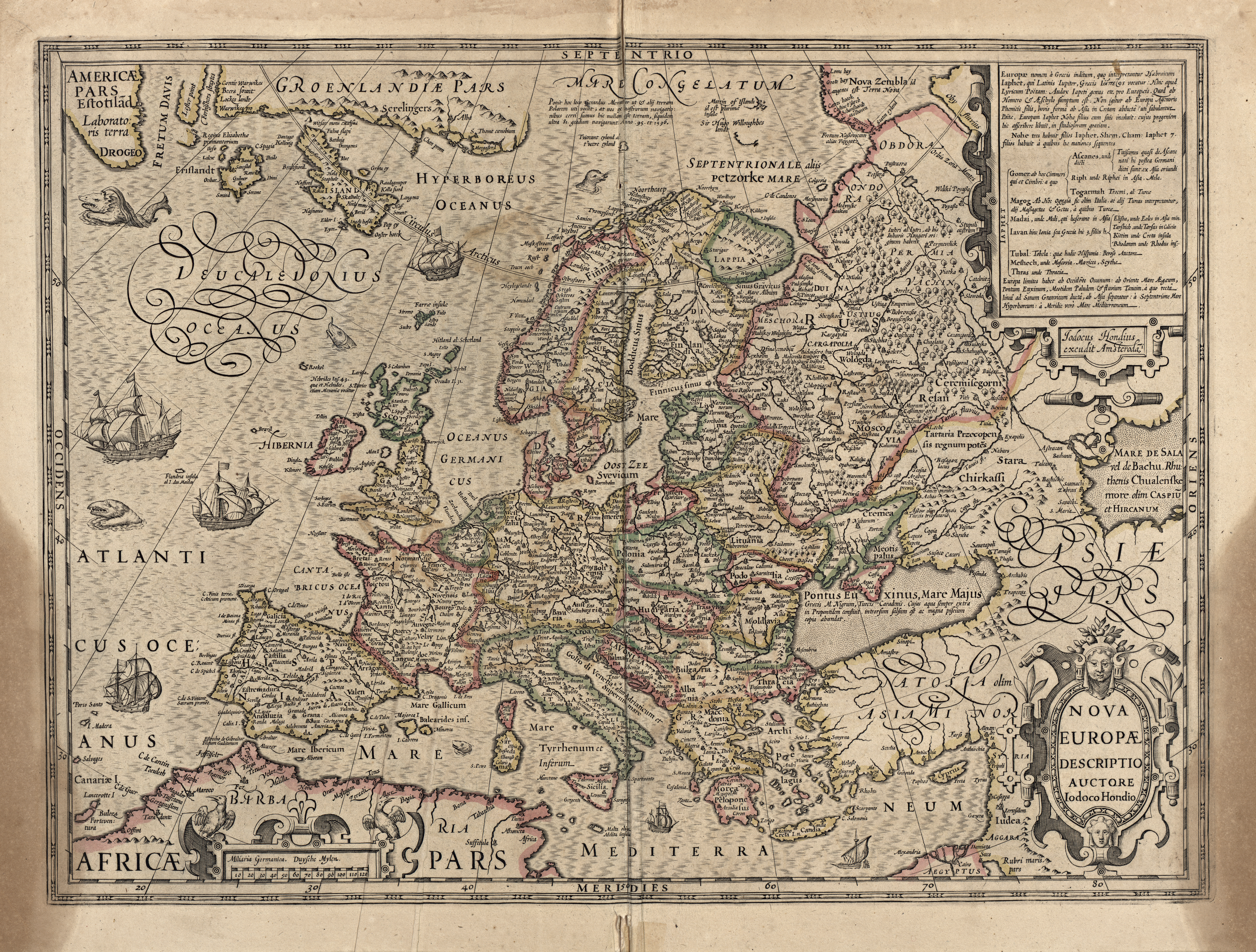 Tittel / Title: Nova Europæ Beskrivelse / Description: Trykket og håndkoloret nordenkart i Jodocus Hondius Atlas sive cosmographicæ meditationes de fabrica mundi et fabricati figura. Denuo auctus. Ed. V. Sumptibus & typis æneis Henrici Hondii, Gerard Mercator Dato / Date: 1623 Sted / Place: Amsterdam Kartograf / Cartographer: Jodocus Hondius Digital kopi av original / Digital copy of original: no-nb_krt_00677 Eier / Owner Institution: Nasjonalbiblioteket / National Library of Norway Lenke / Link: Bildesignatur / Image Number: fKart 1576 ib.